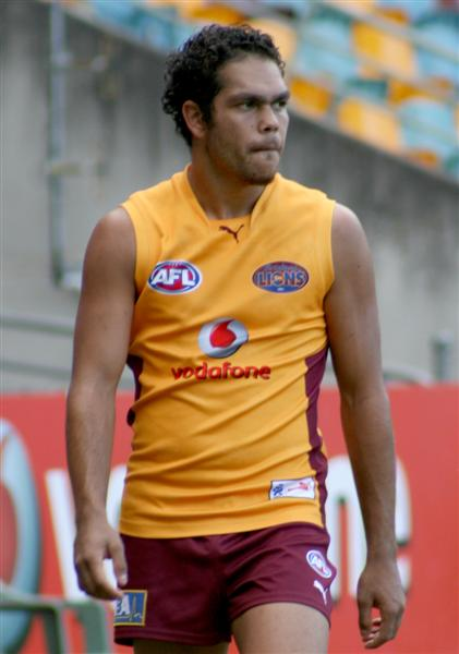 Rhan Hooper at a Brisbane Lions public training session in 2008.